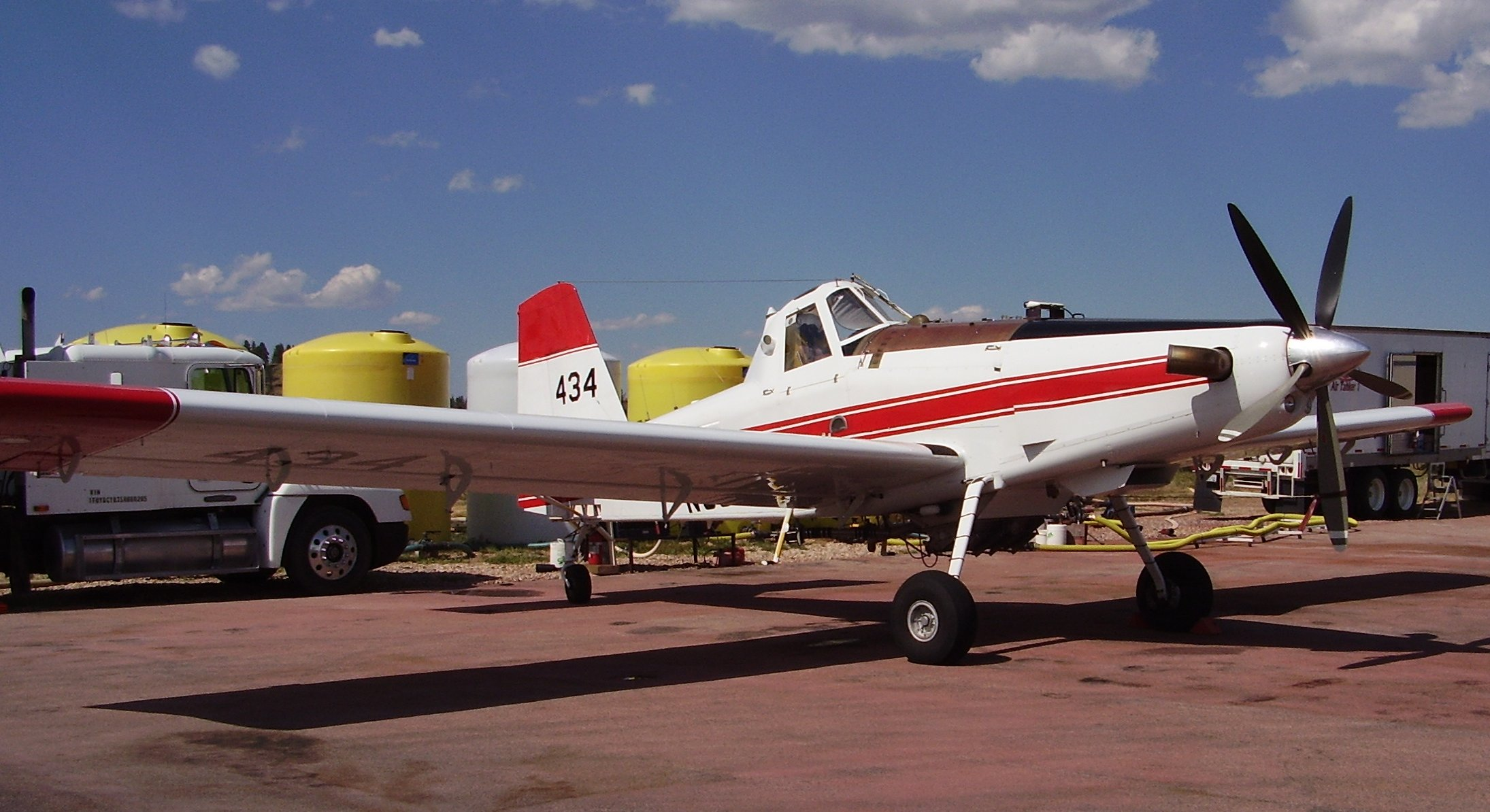 Air Tractor AT-602 used in wildland firefighting in South Dakota